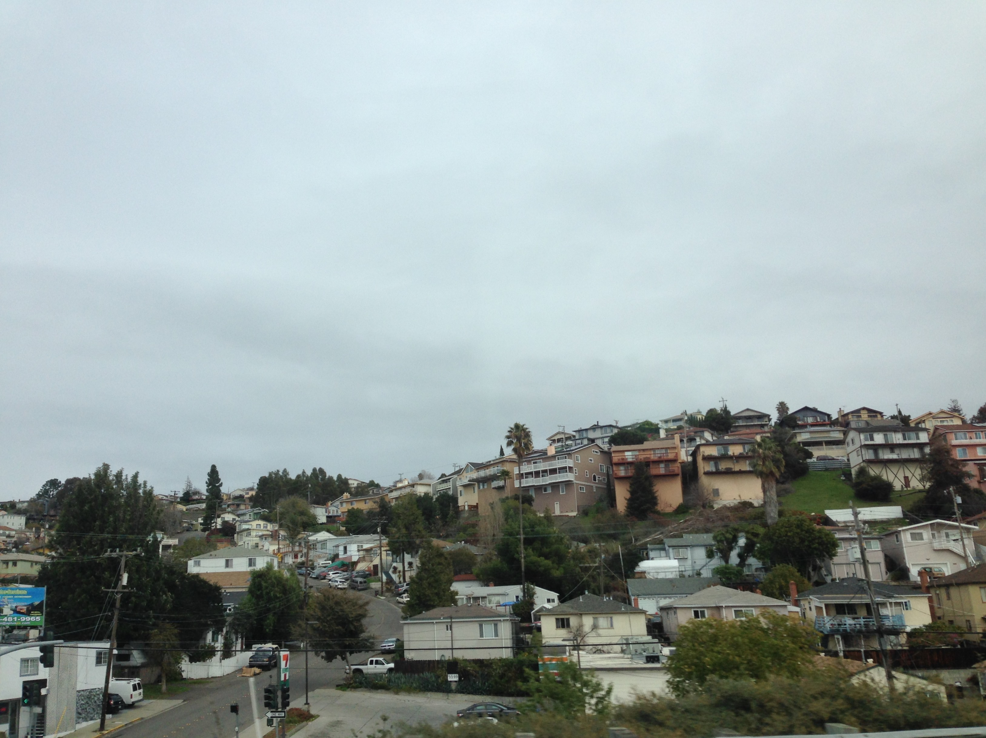 Ashland, CA, USA